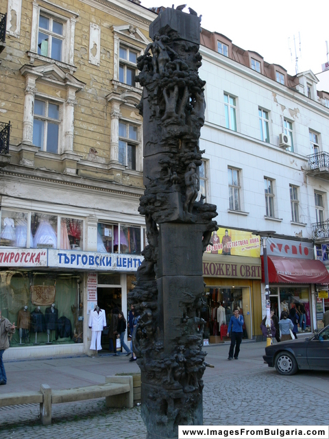 Pirotska Str., Sofia